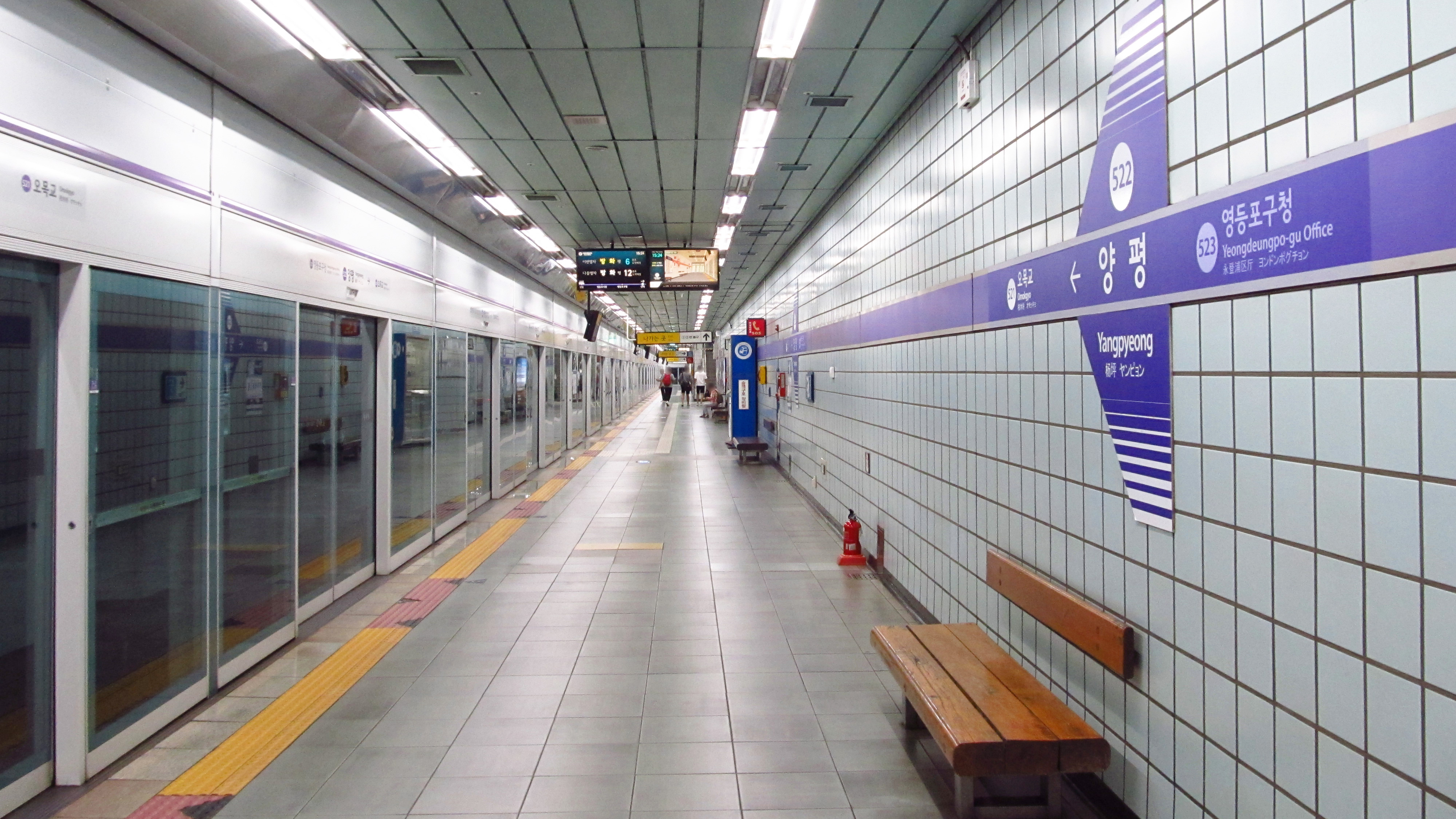 The platform at Yangpyeong Station on Seoul Subway Line 5 in Yeongdeungpo-gu, Seoul, Republic of Korea(South Korea)